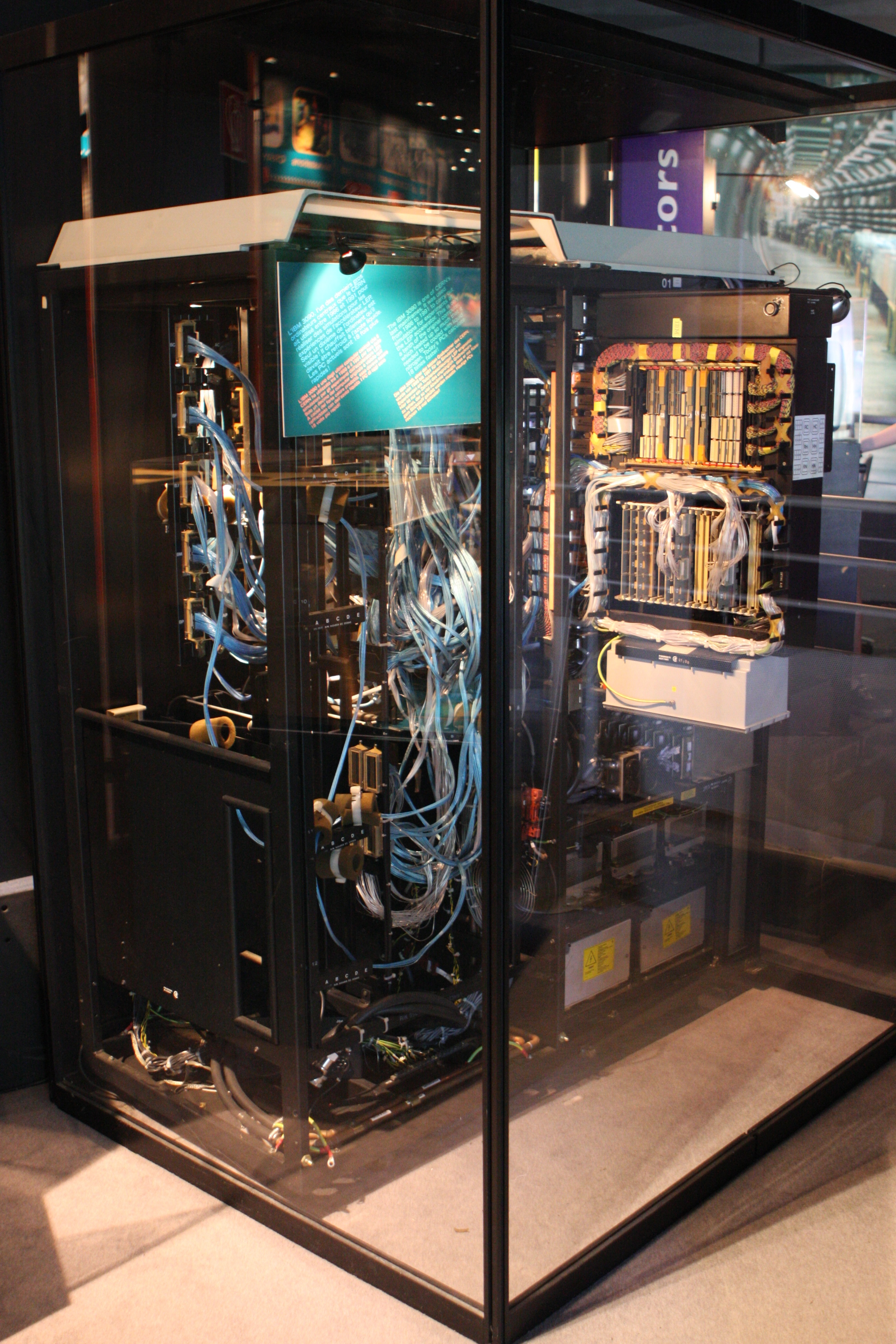 CERN - old computer